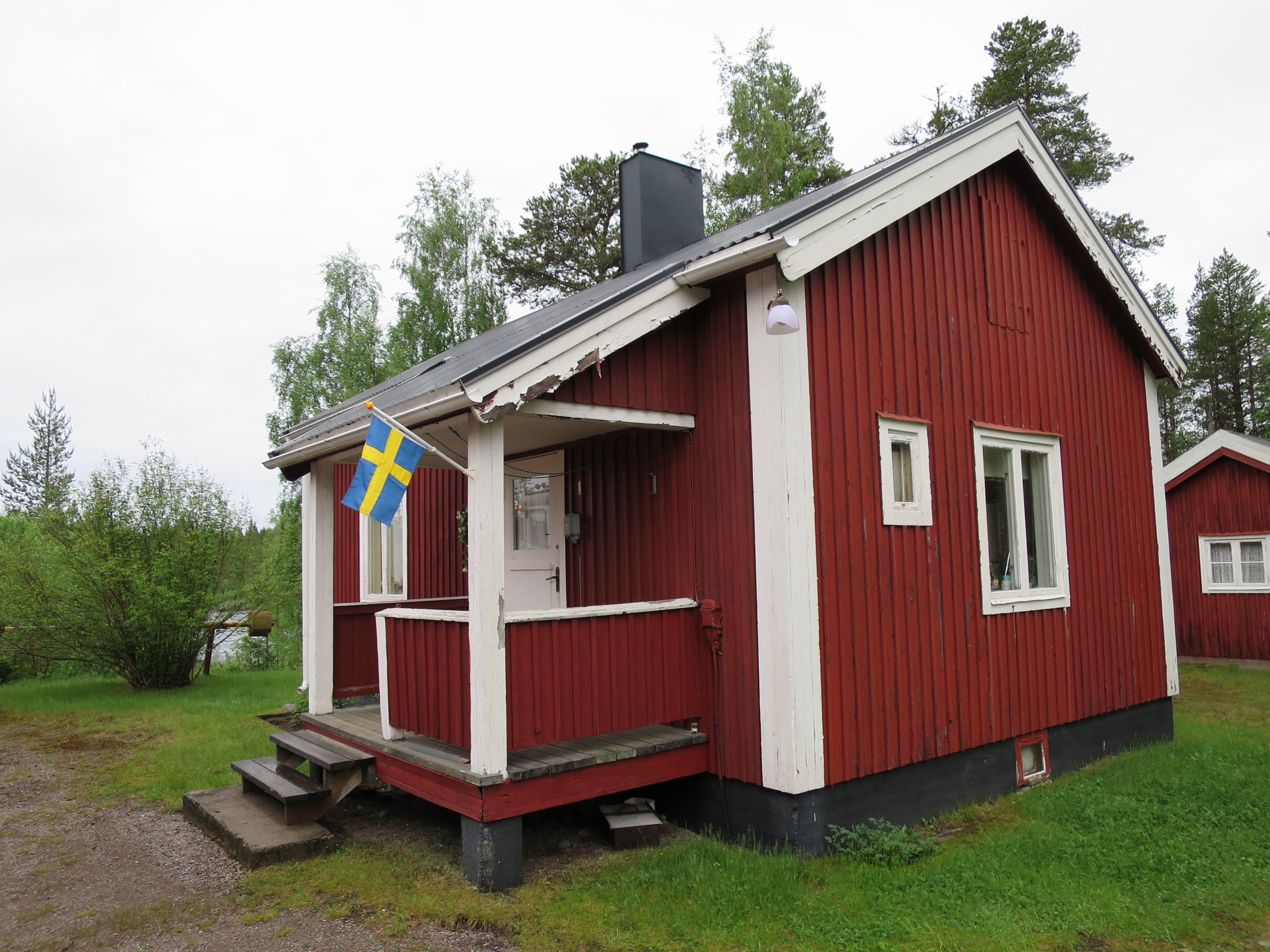 Guard House of Piteälven-bridge, Inlandsbanan, Sweden